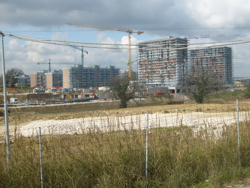 Building of Mediterranean Village for Pescara 2009